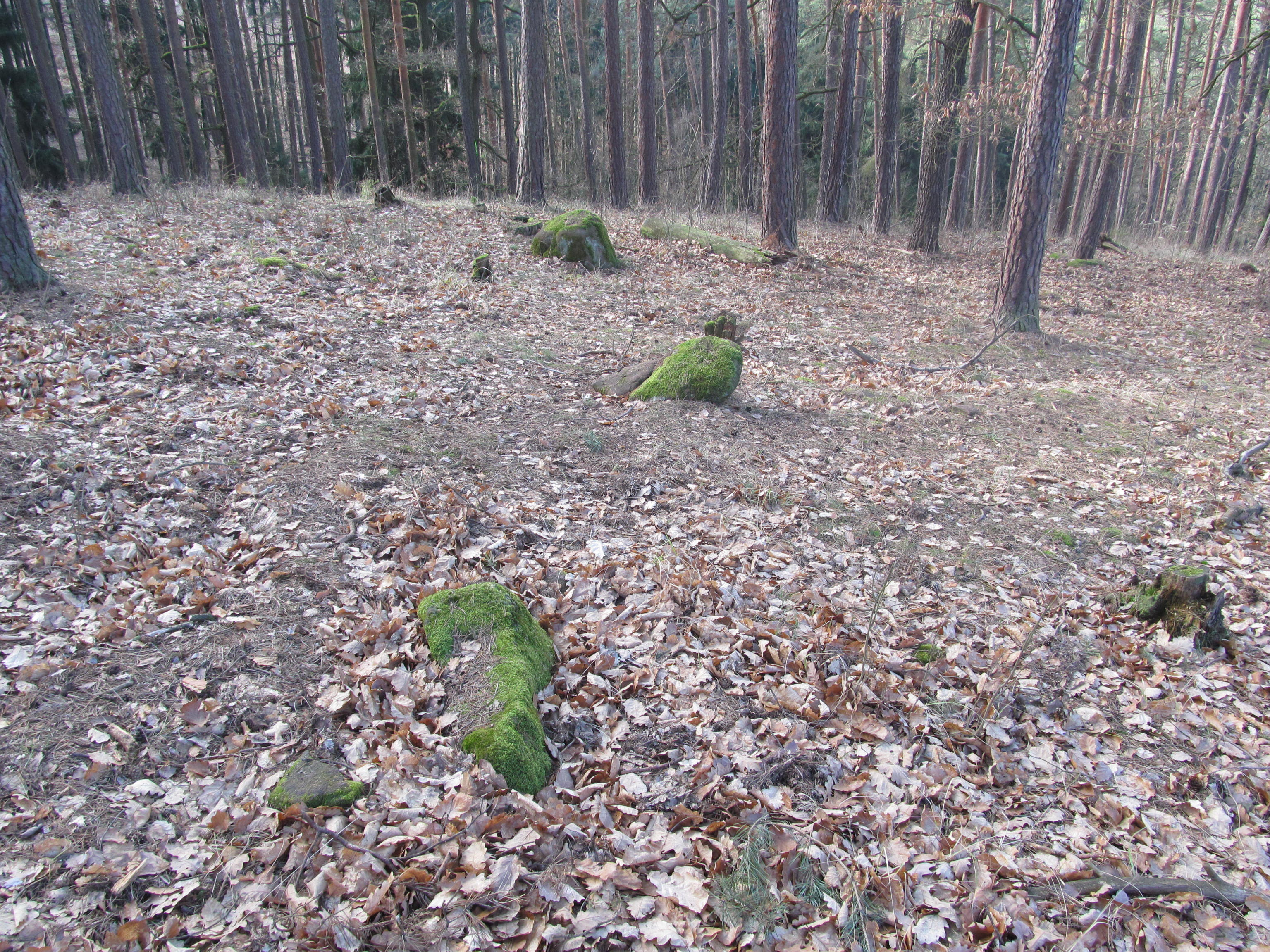 Stones in Nečemice stone-rows